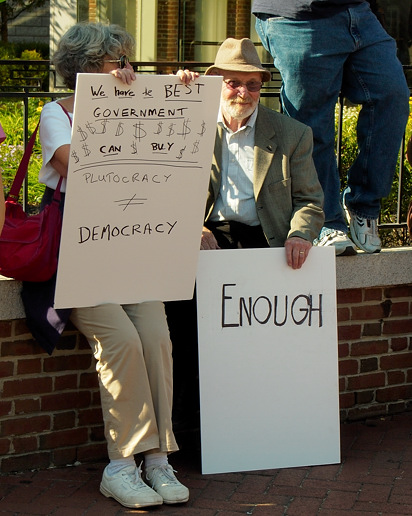 October 8, 2011. Occupy Philadelphia March to Liberty Bell. Old Couple. Plutocracy is not Democracy